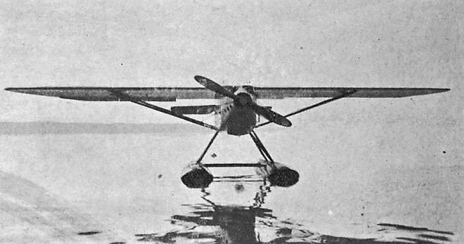 Latécoère 28.3 photo from Annuaire de L'Aéronautique 1931